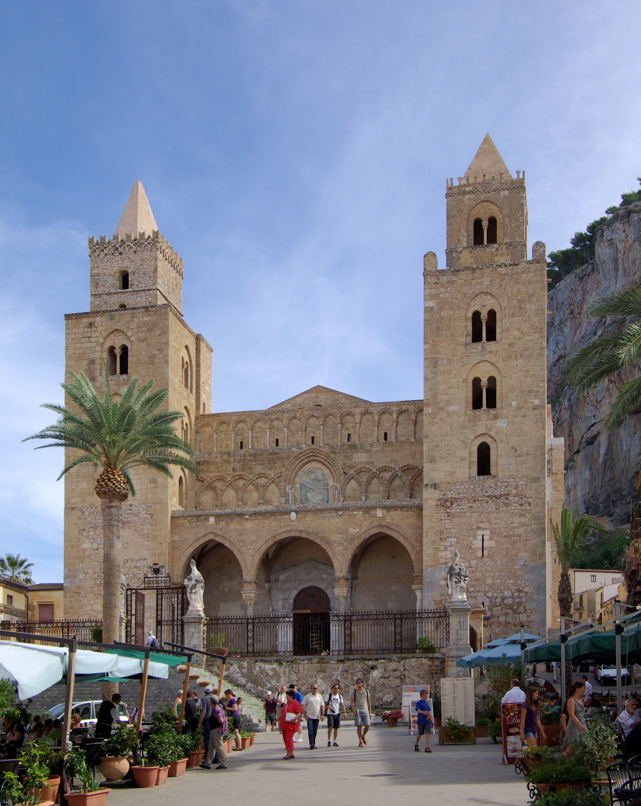 Italy, Sicily, Cefalù, cathedral